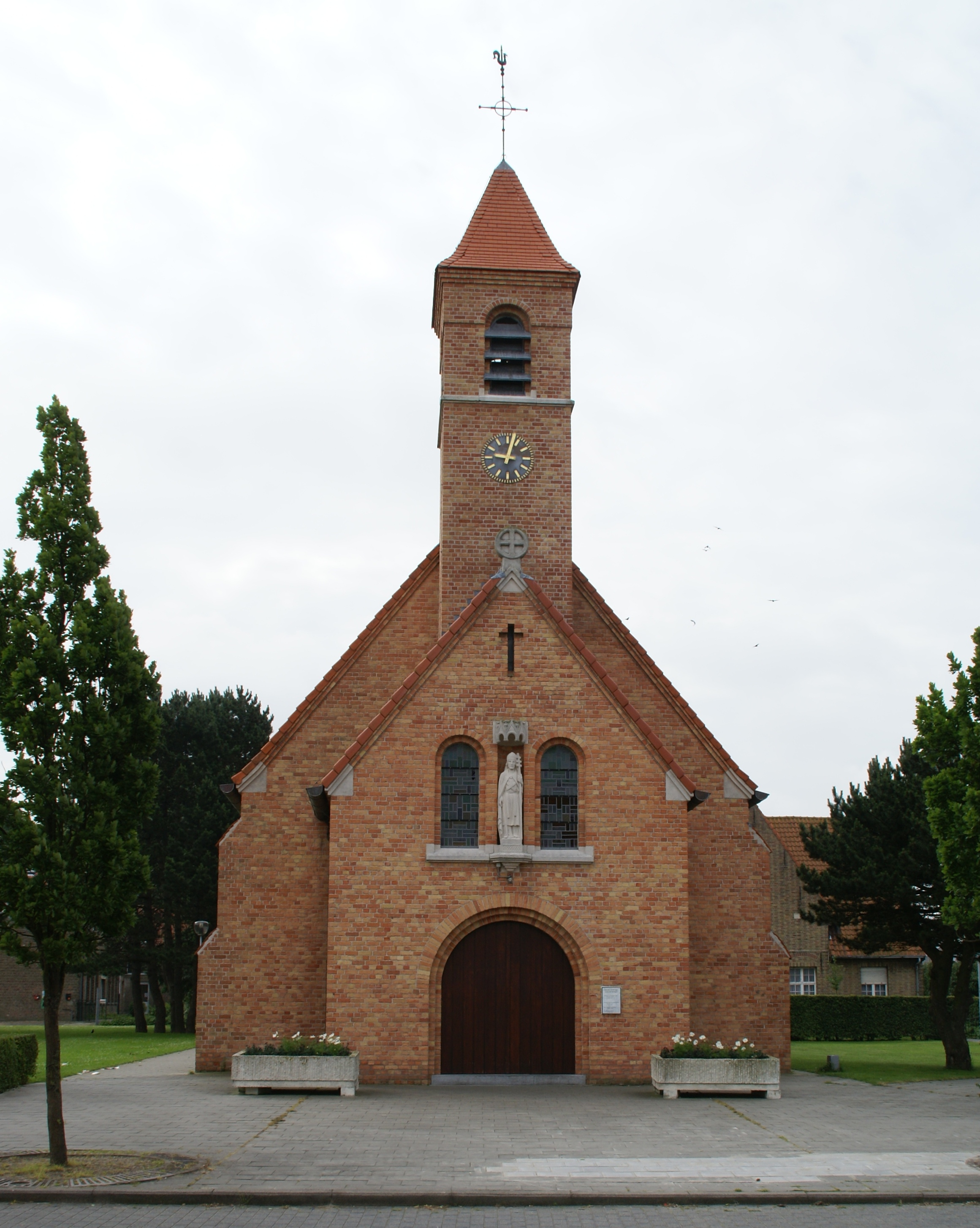 Zwankendamme (Brugge) (Belgium): Leo the Great church